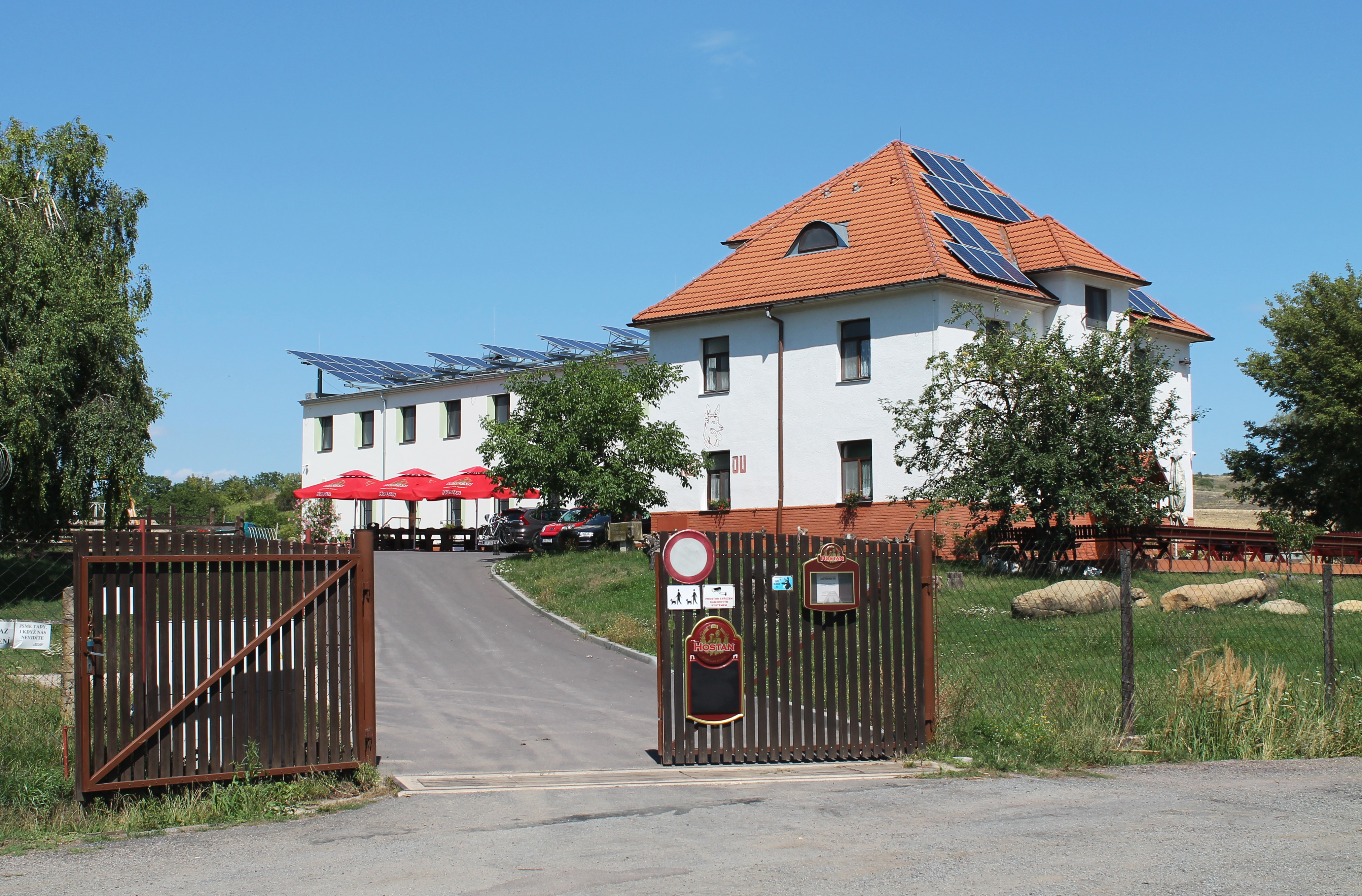 Jelení farma guest house, Ječmeniště, Vrbovec, Znojmo District, Czech Republic